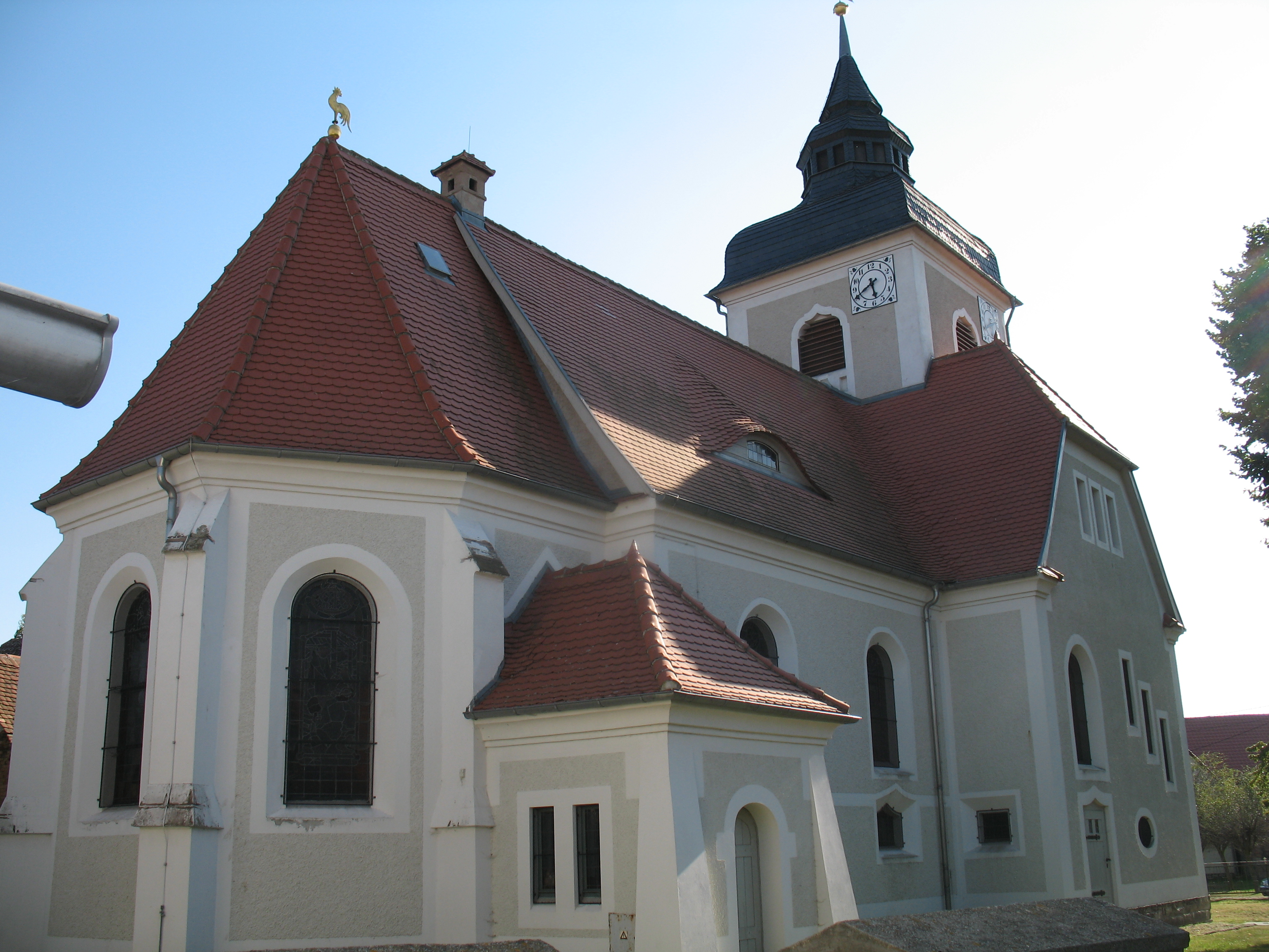 Church in Landgrafroda, Saxony-Anhalt, Germany